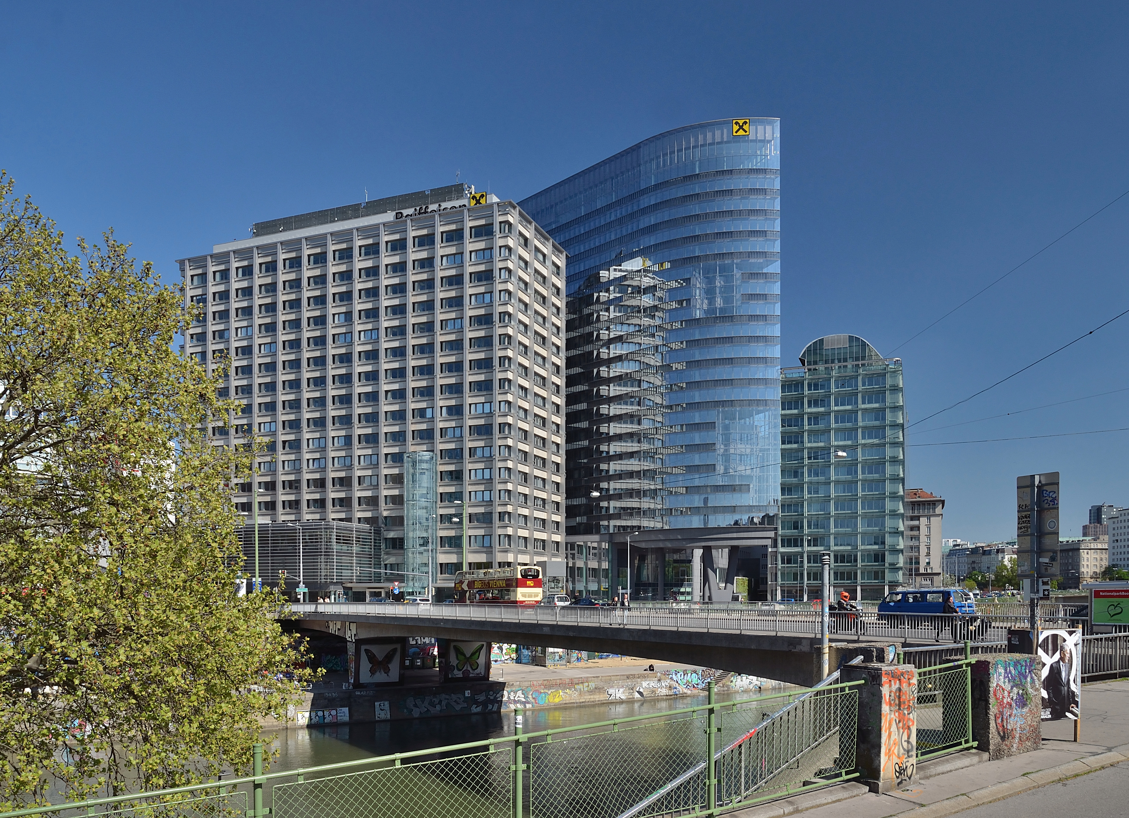 Raiffeisen Tower, seat of the Raiffeisen Holding Lower Austria-Vienna at the Obere Donaustraße at Donaukanal in Vienna. In front the Salztorbrücke.